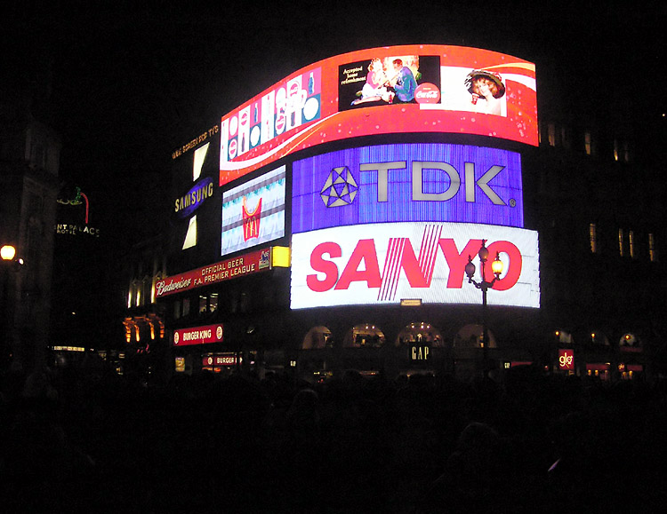 The lights of Piccadilly Circus. Taken by Adrian Pingstone in November 2004 and released to the public domain.